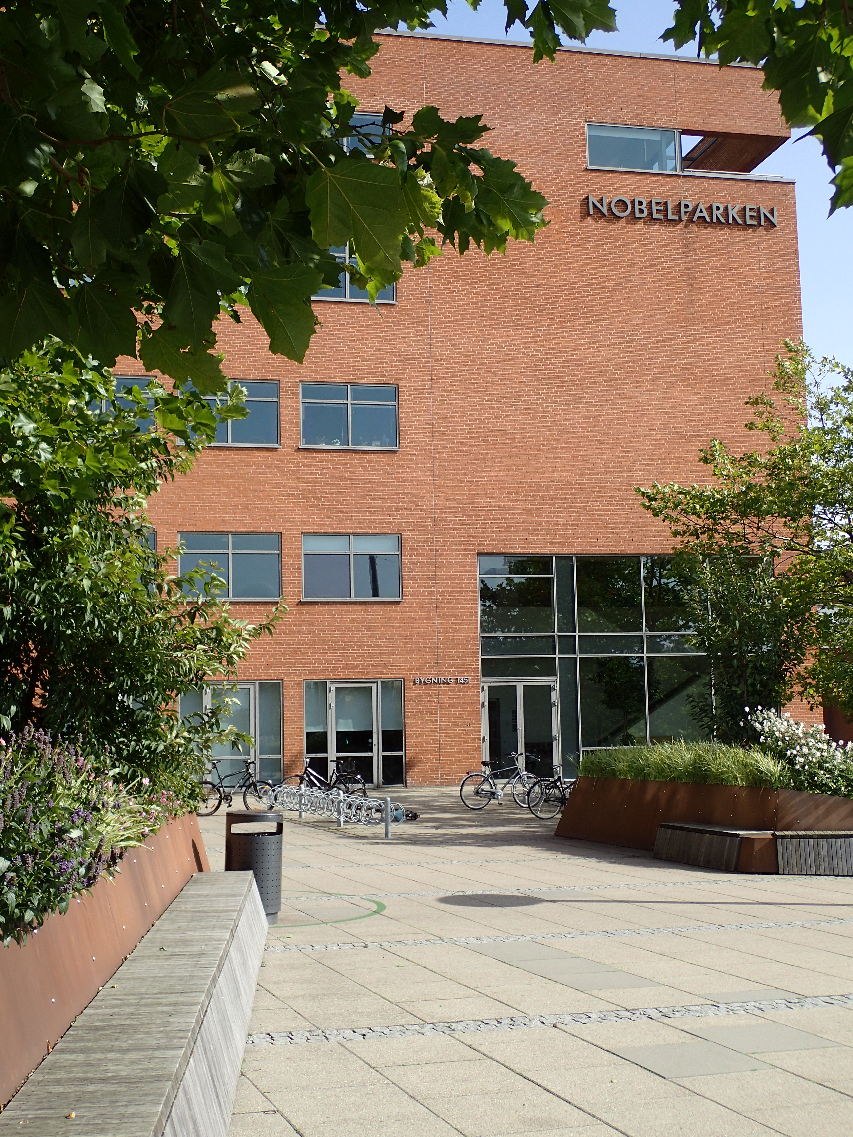 Nobelparken